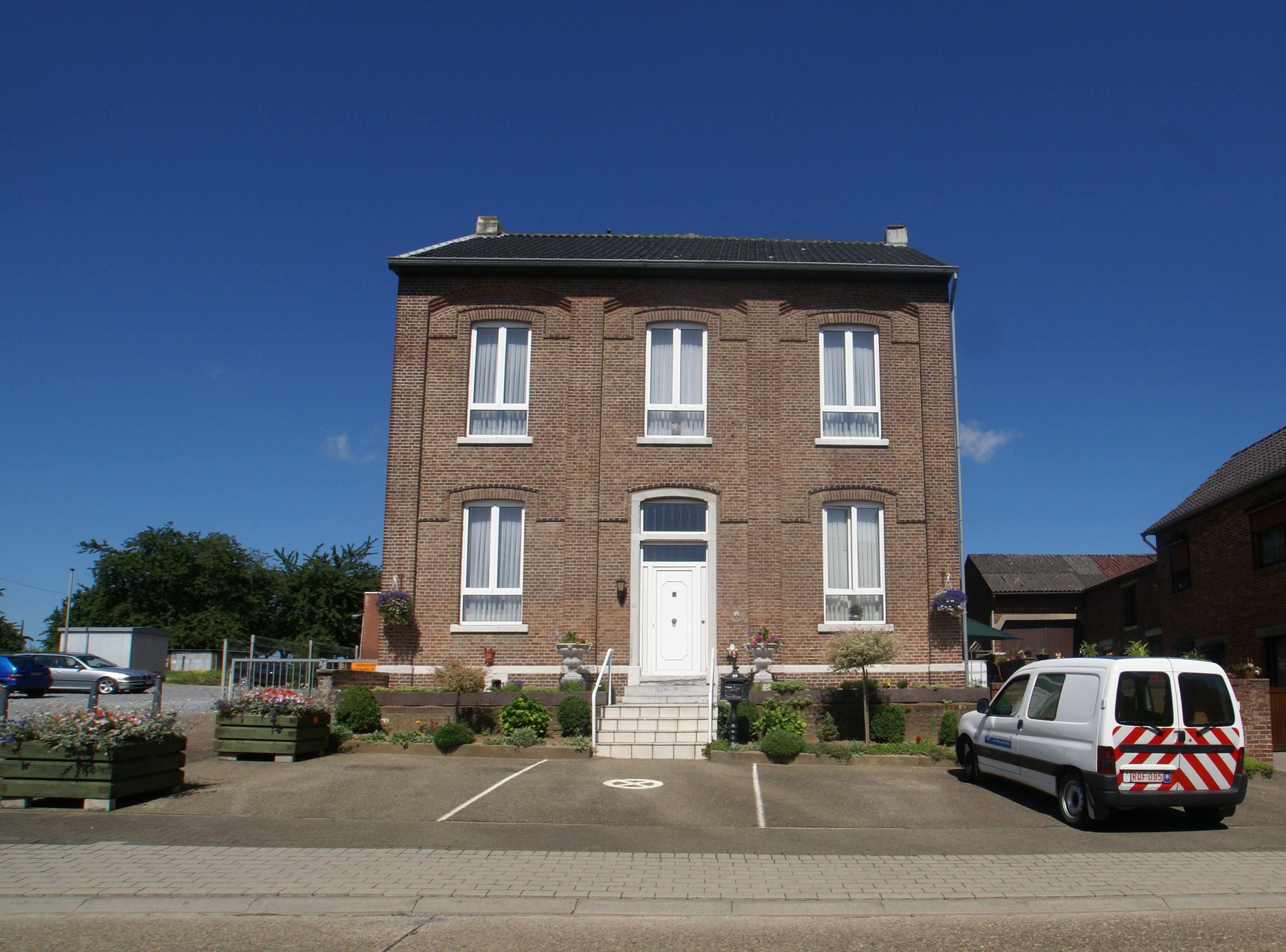 Genoelselderen (Belgium): Former Town Hall